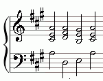 Sample sheet music cadence in A major: I-IV-V-I.